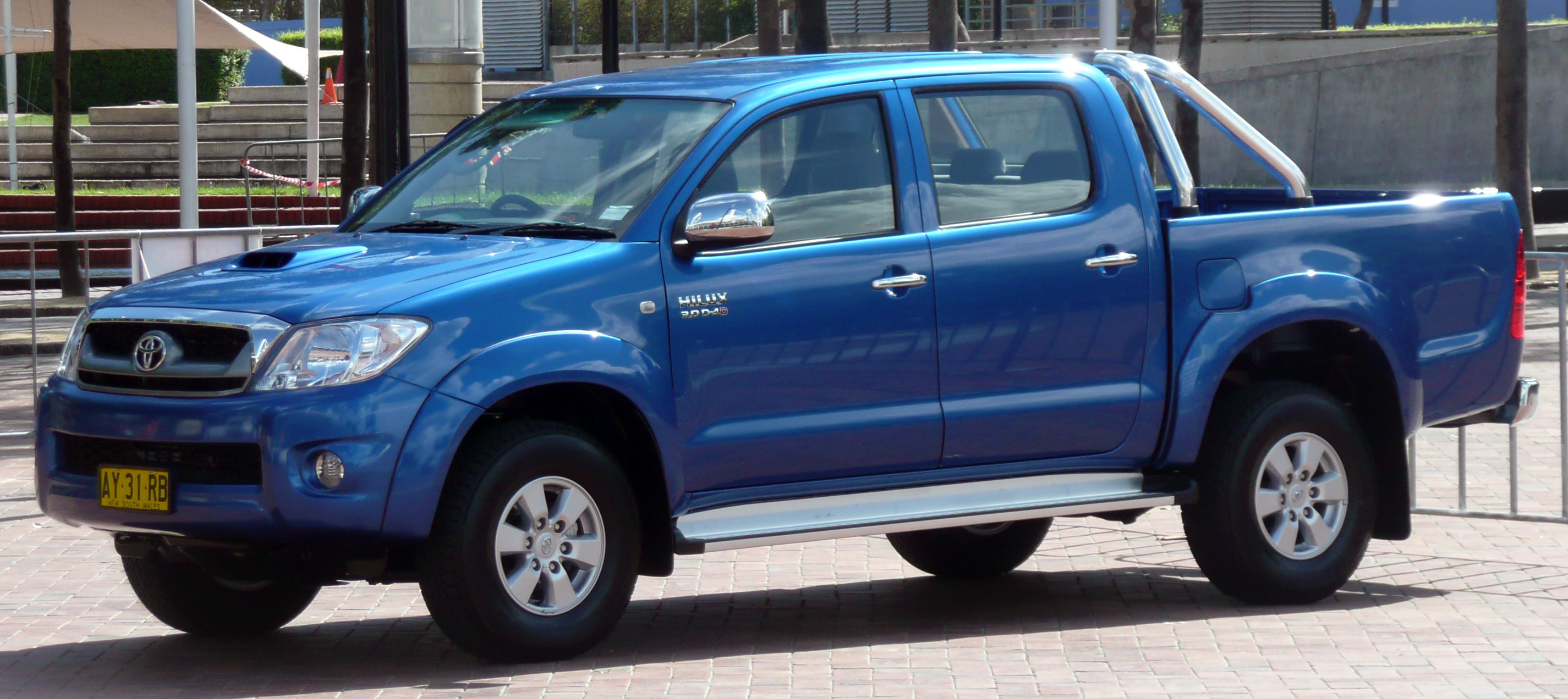 2008 Toyota HiLux (GGN25R) SR5 4-door utility. Photographed at the 2008 Australian International Motor Show, Sydney, New South Wales, Australia.